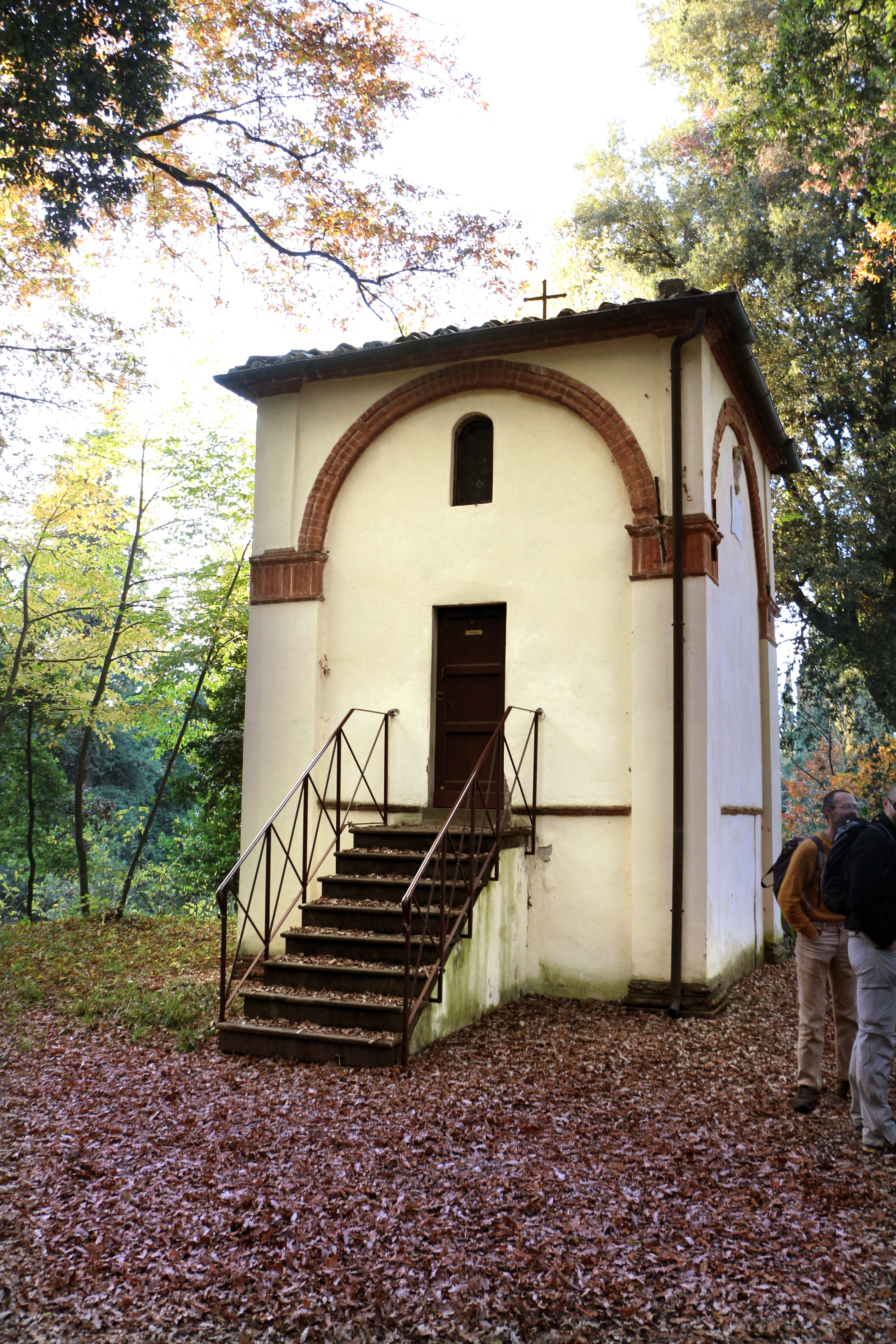 San Vivaldo Sacro Monte